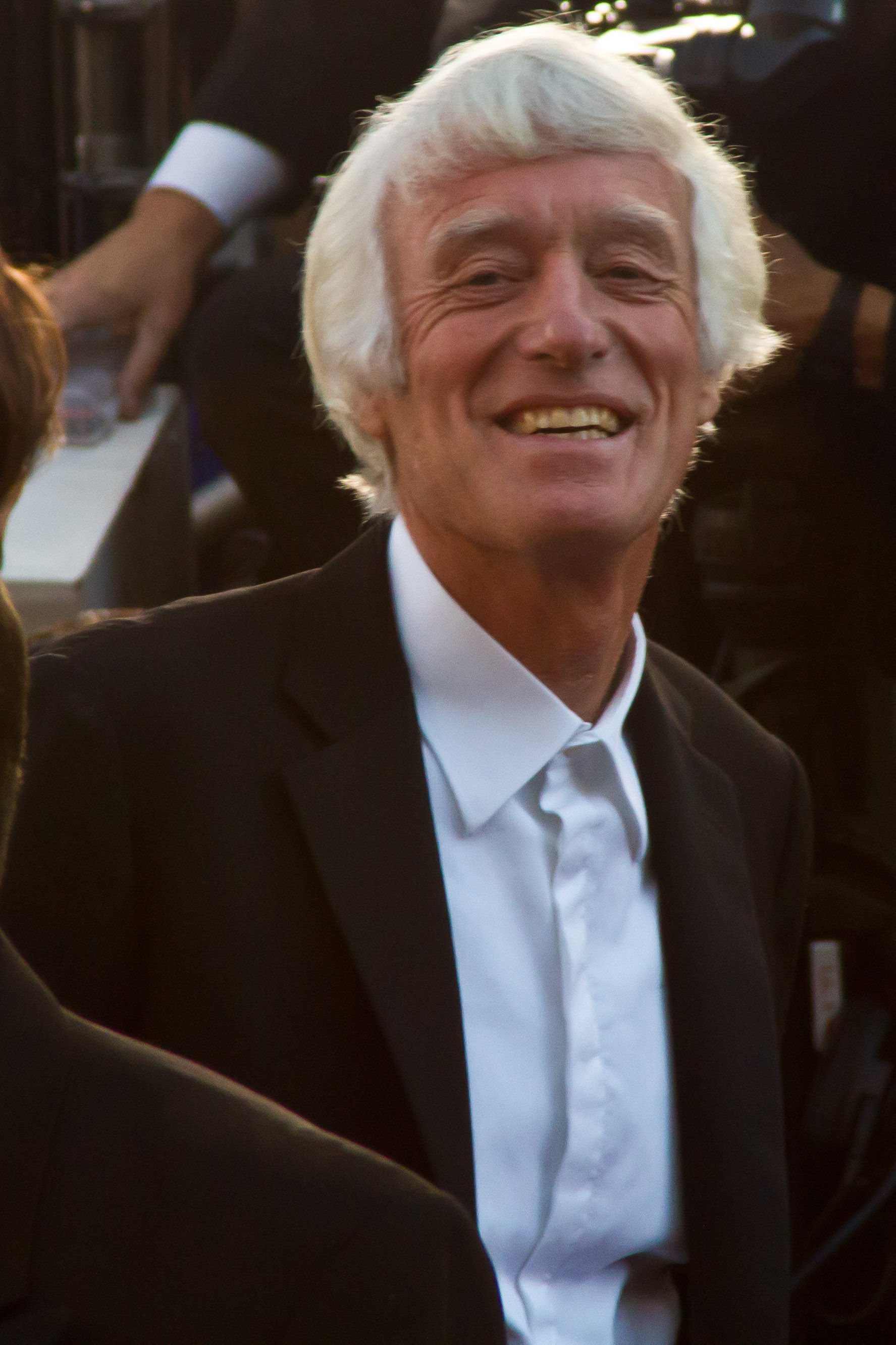 English cinematographer Roger Deakins at the 83rd Academy Awards